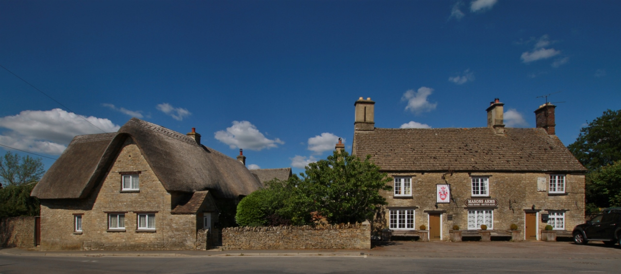 Windmill Cottage and the Masons Arms, Park Road, North Leigh, Oxfordshire, seen from the southwest